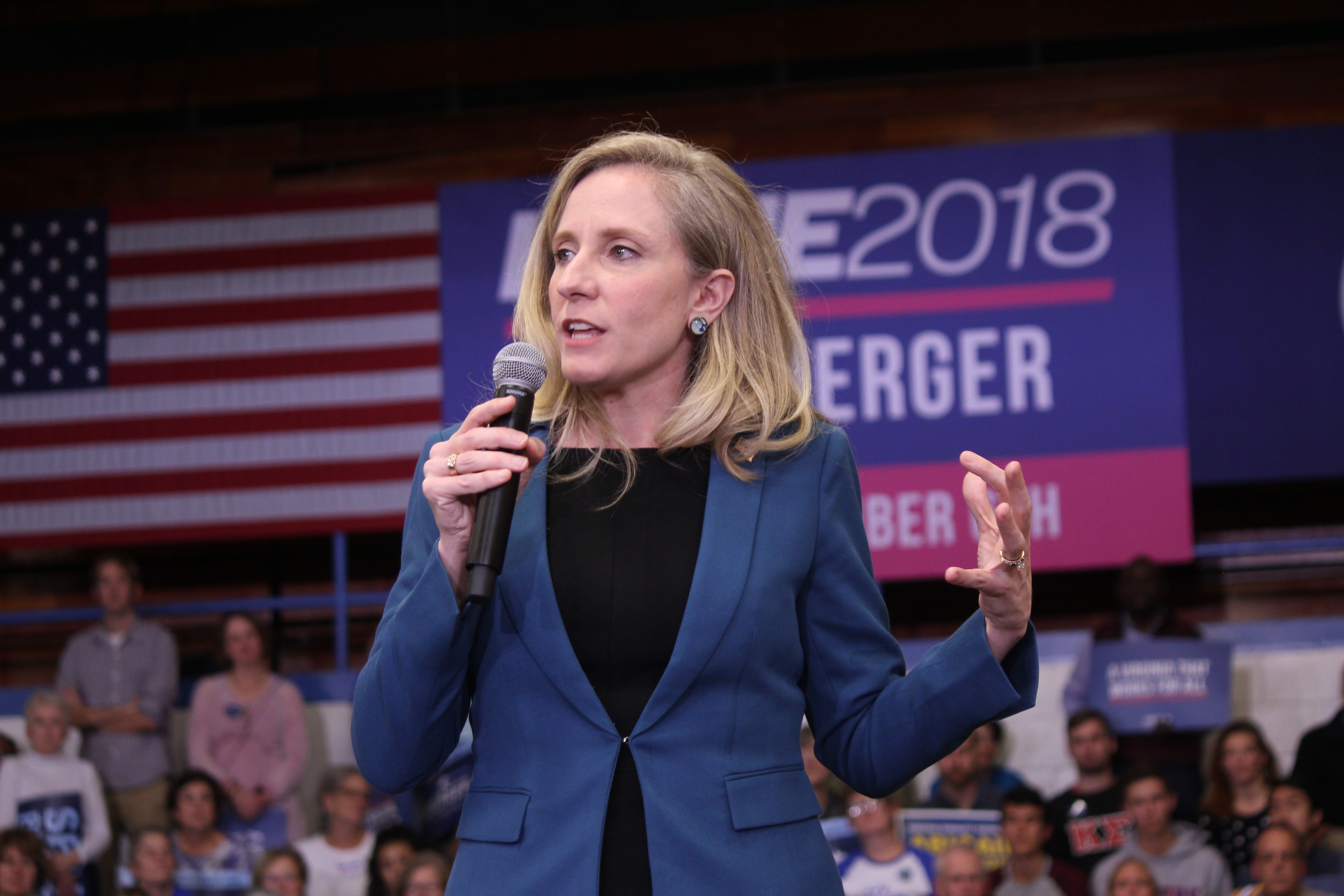 Abigail Spanberger speaks at a campaign rally in Henrico county with Tim Kaine at J.R. Tucker High School on election day eve.